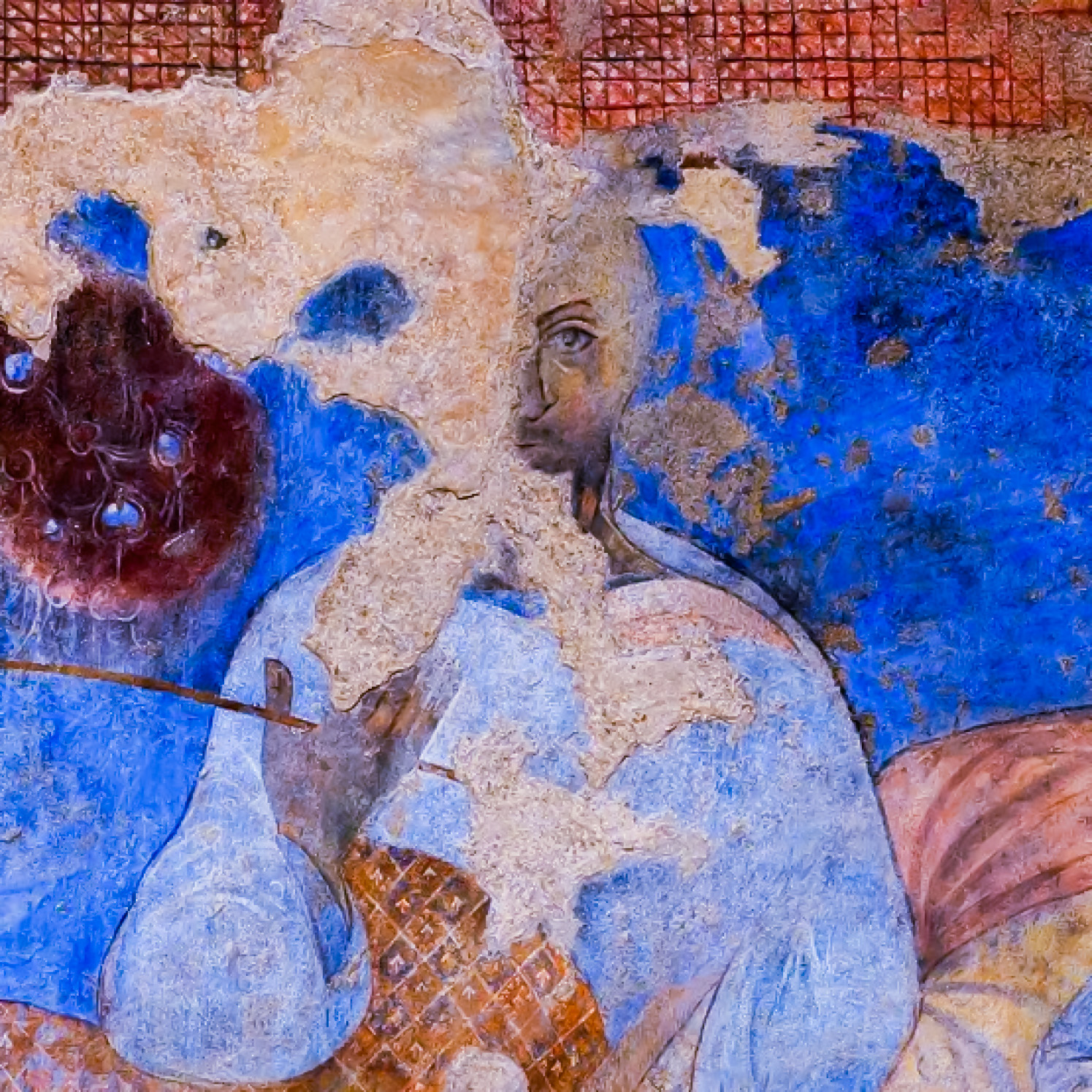 Fresco of Prince (future caliph) Walid bin Yazid from Qasr Amra